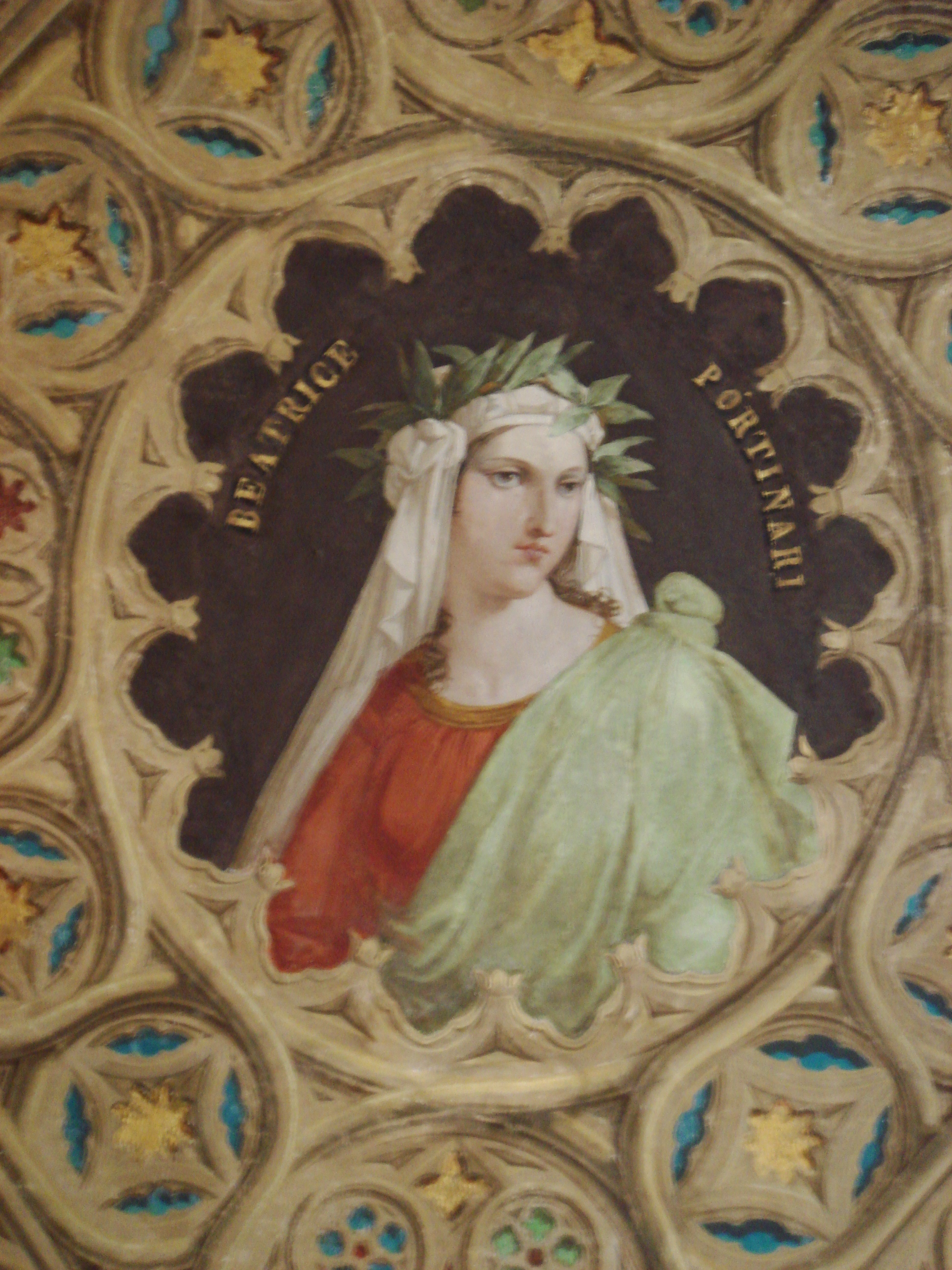 Rome, Italy. .